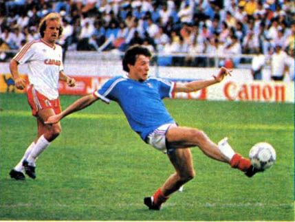 France footballer, Luis Fernandez, vs Canada at the WC.